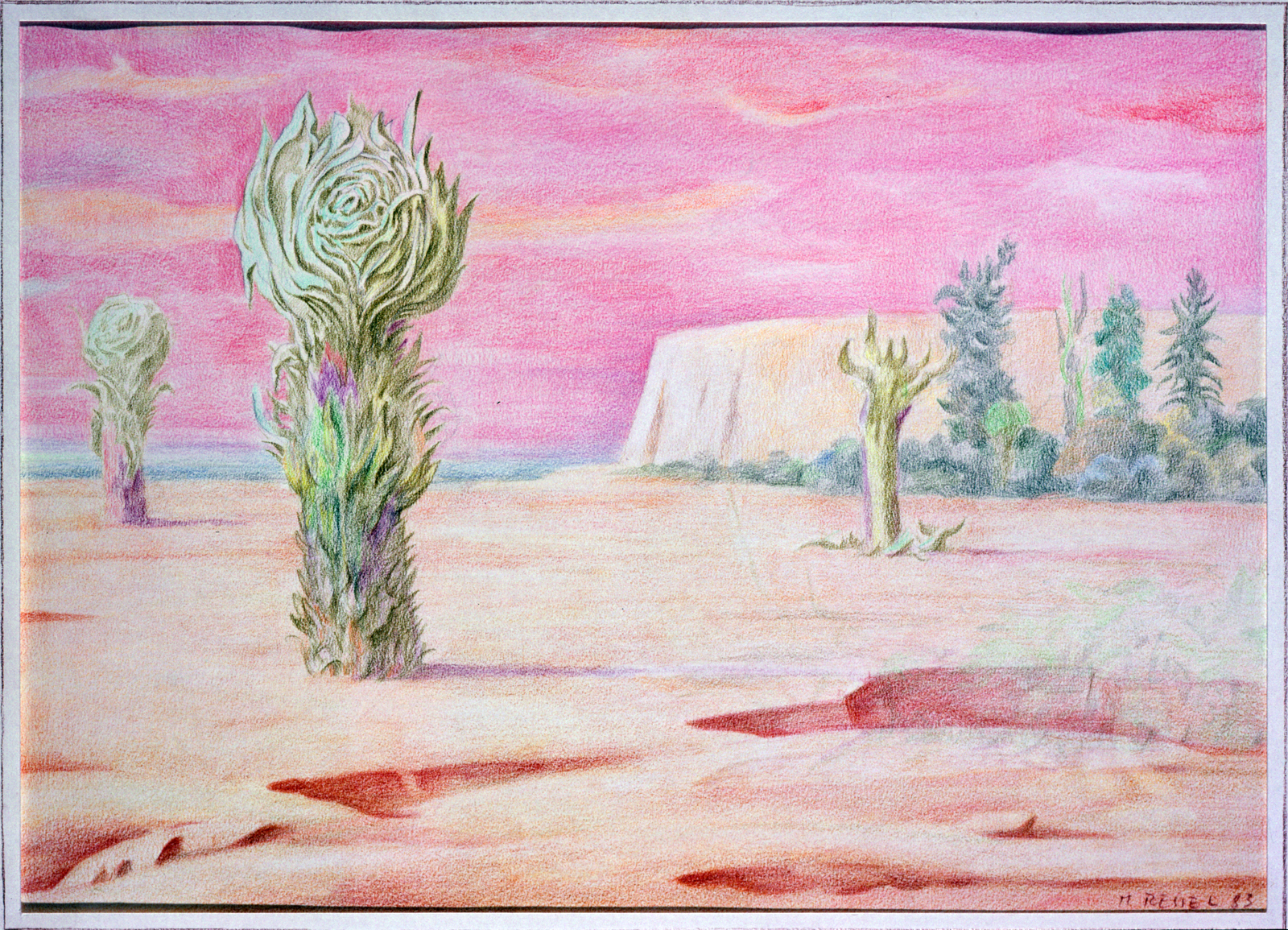 Milan Ressel, Oasis, coloured pencils 40x50 cm (1983)